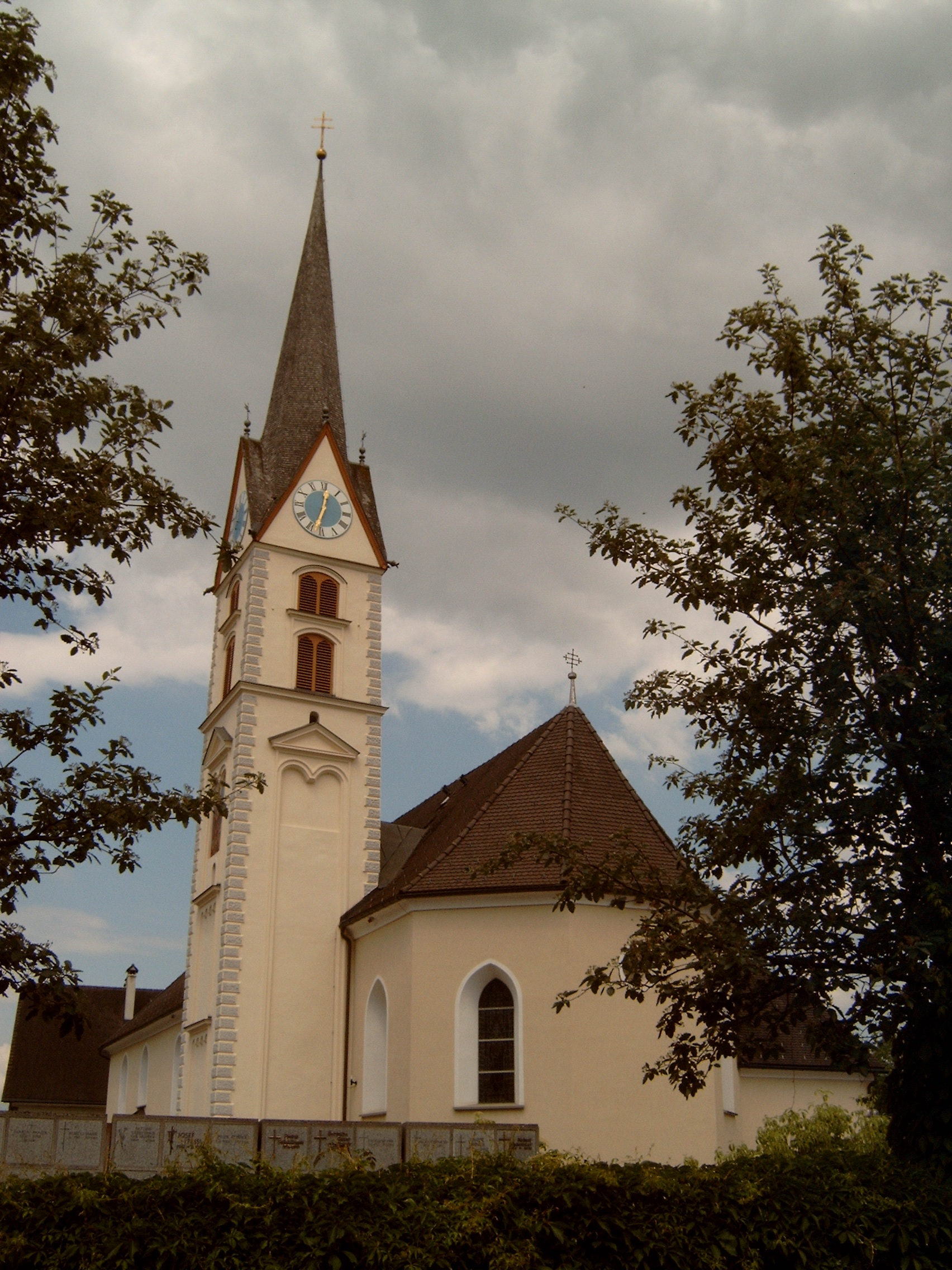 Nenzing, church